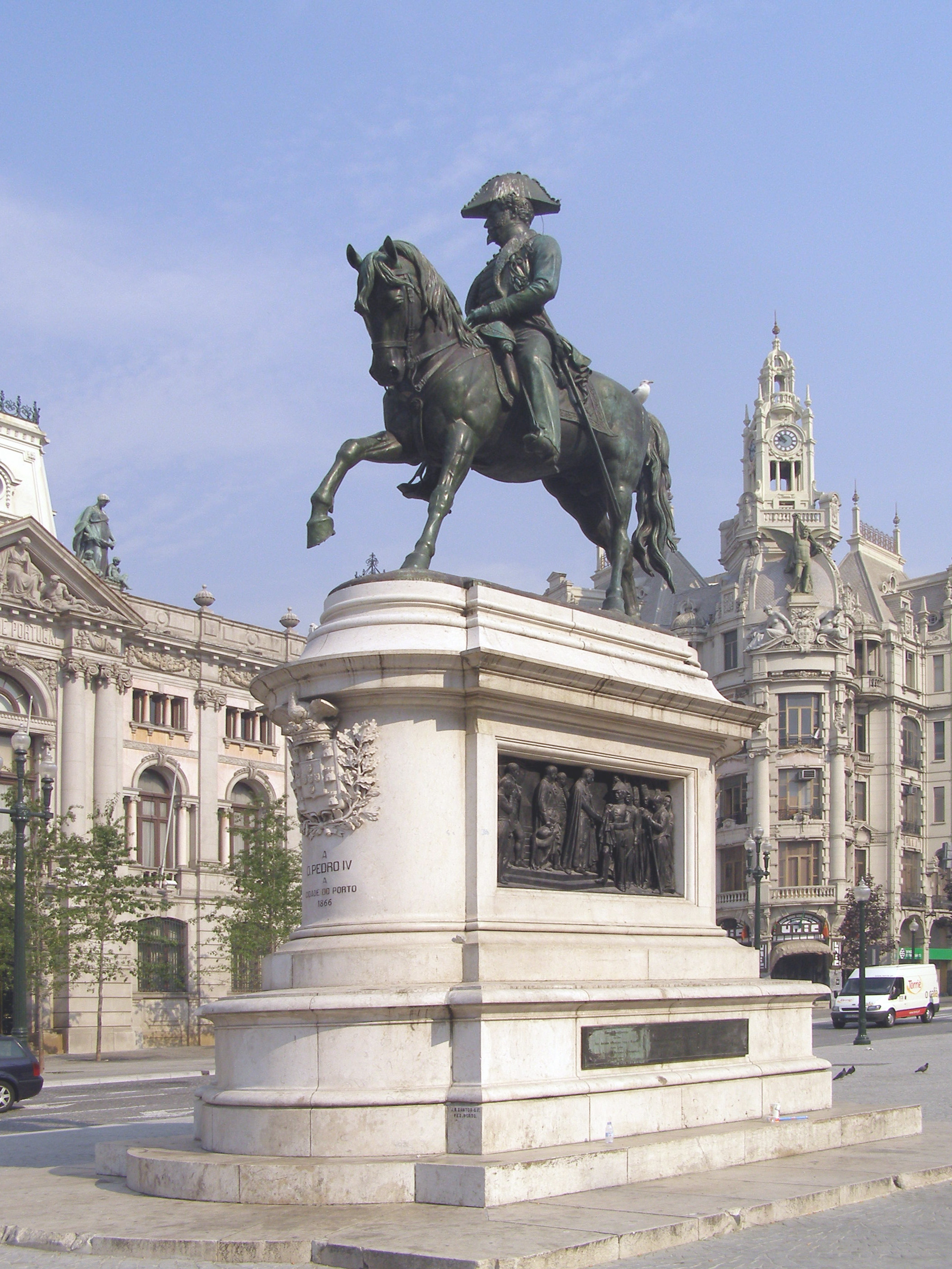 Equestrian statue of Dom Pedro IV, king of Portugal (Dom Pedro I, 1st Emperor of Brazil